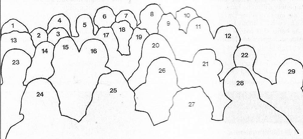 Key of musical artists depicted on the cover of the album "You Can All Join In"